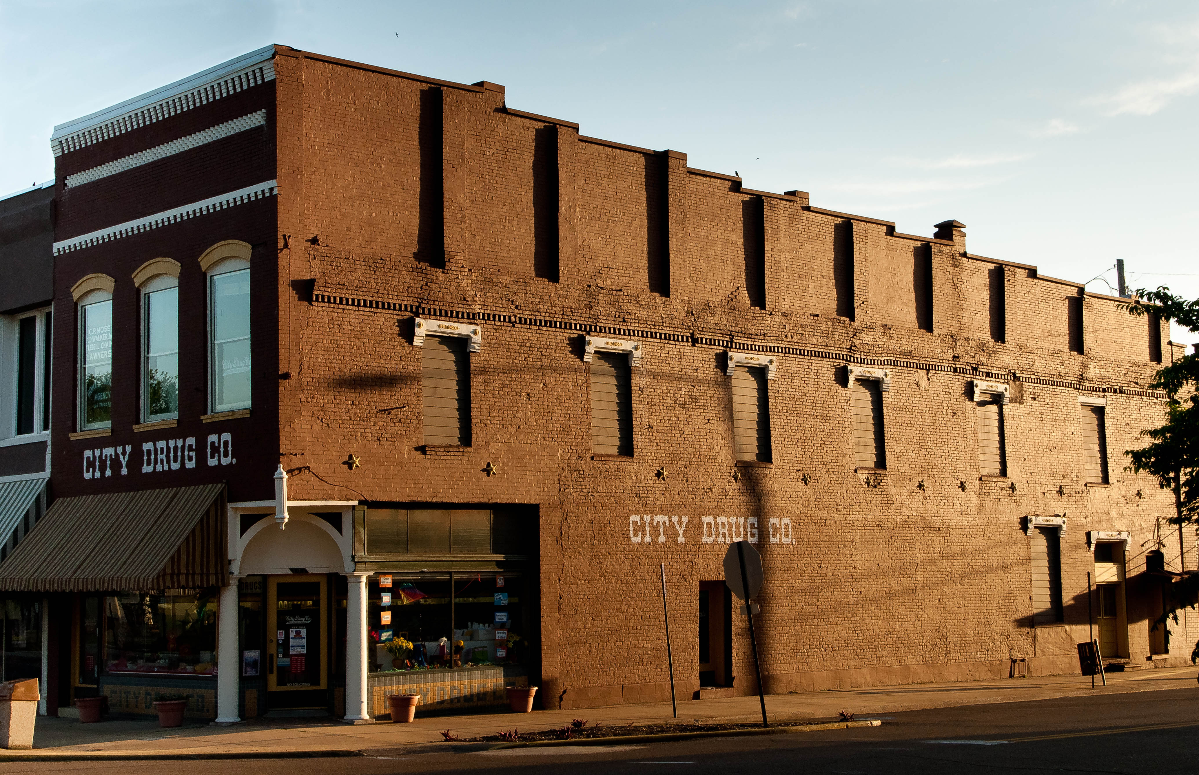 This is a photo of City Drug Co in downtown Dyersburg, TN at sunset. The building represents the style of architecture in the area.